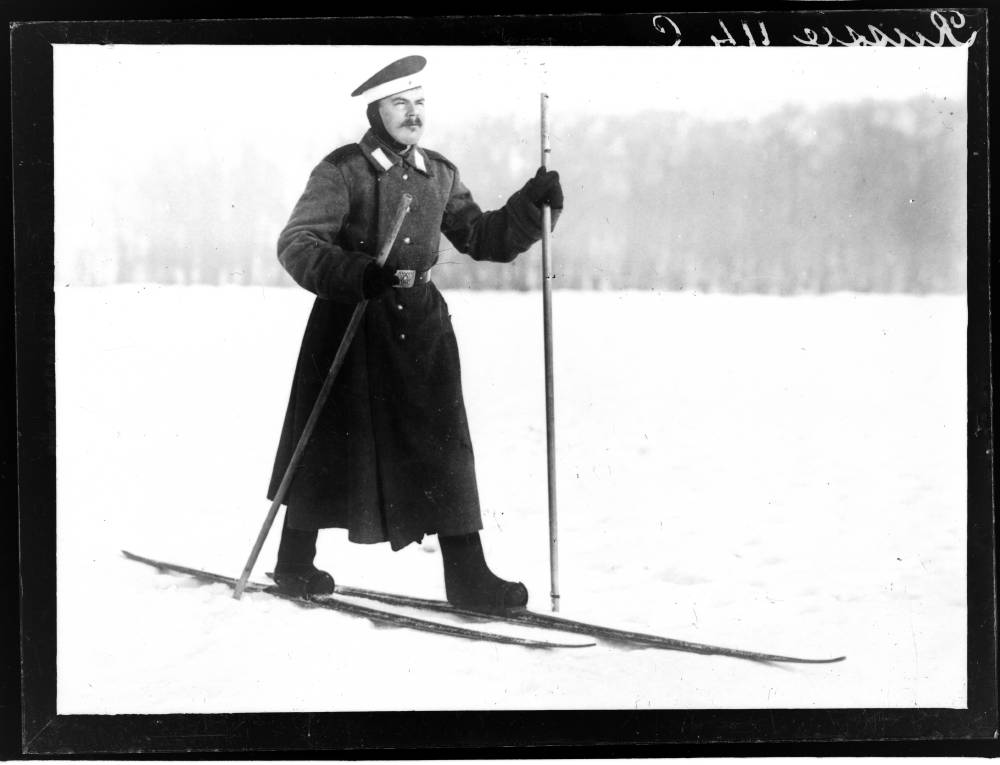 Accession Number: 1975:0112:1647 Maker: Ch. Chusseau-Flaviens Title: Russie Date: ca. 1900-1919 Medium: negative, gelatin on glass Dimensions: 9 x 12 cm. George Eastman House Collection General information about the George Eastman House Photography Collection is available at For information on obtaining reproductions go to